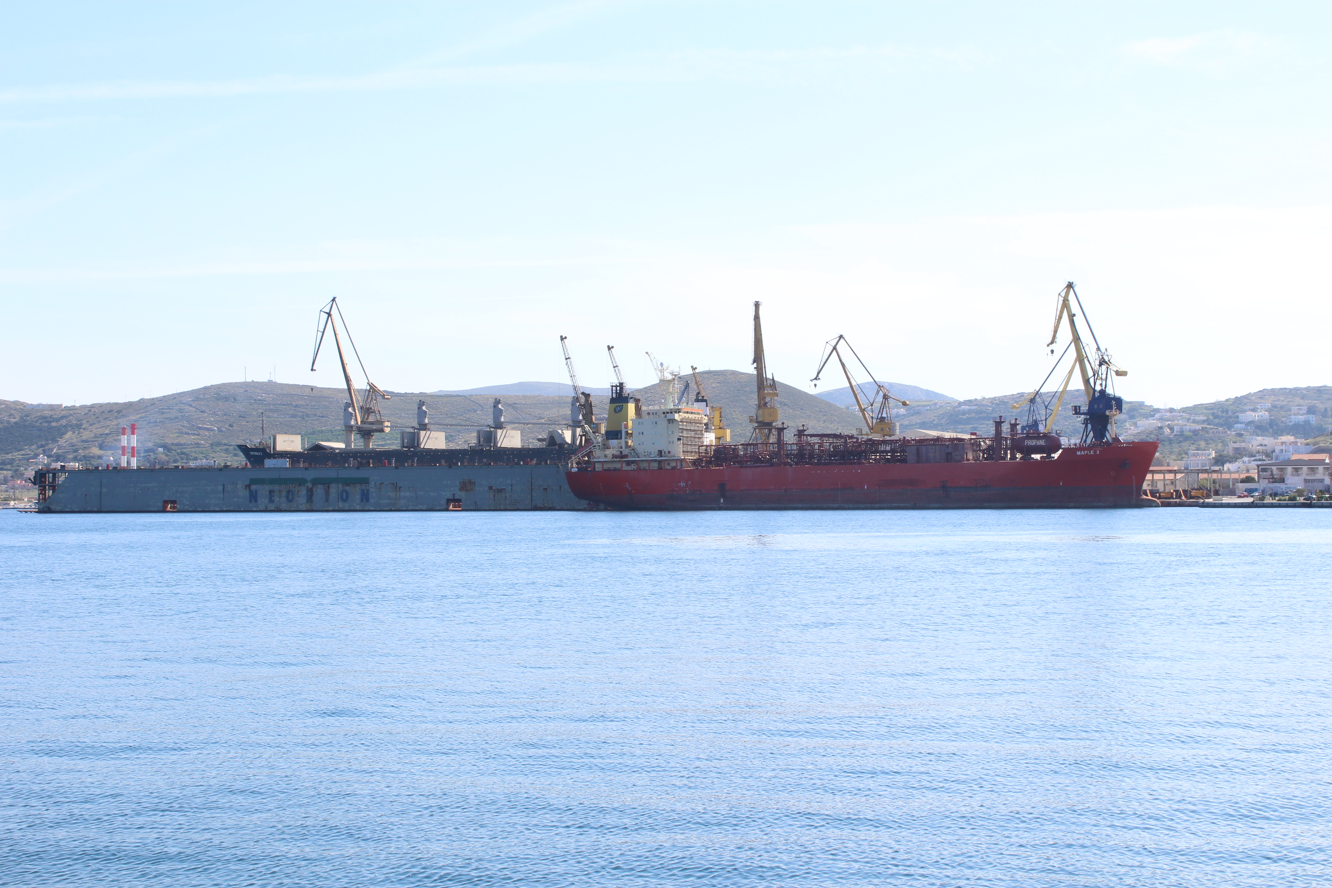 Shipyard, next to the Ermoupolis port in Syros